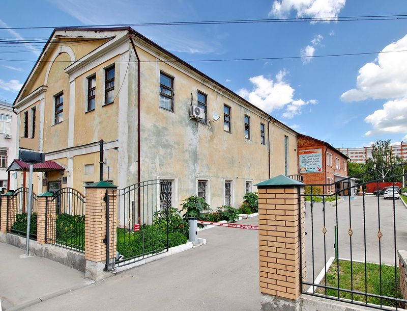 Churches in Tula